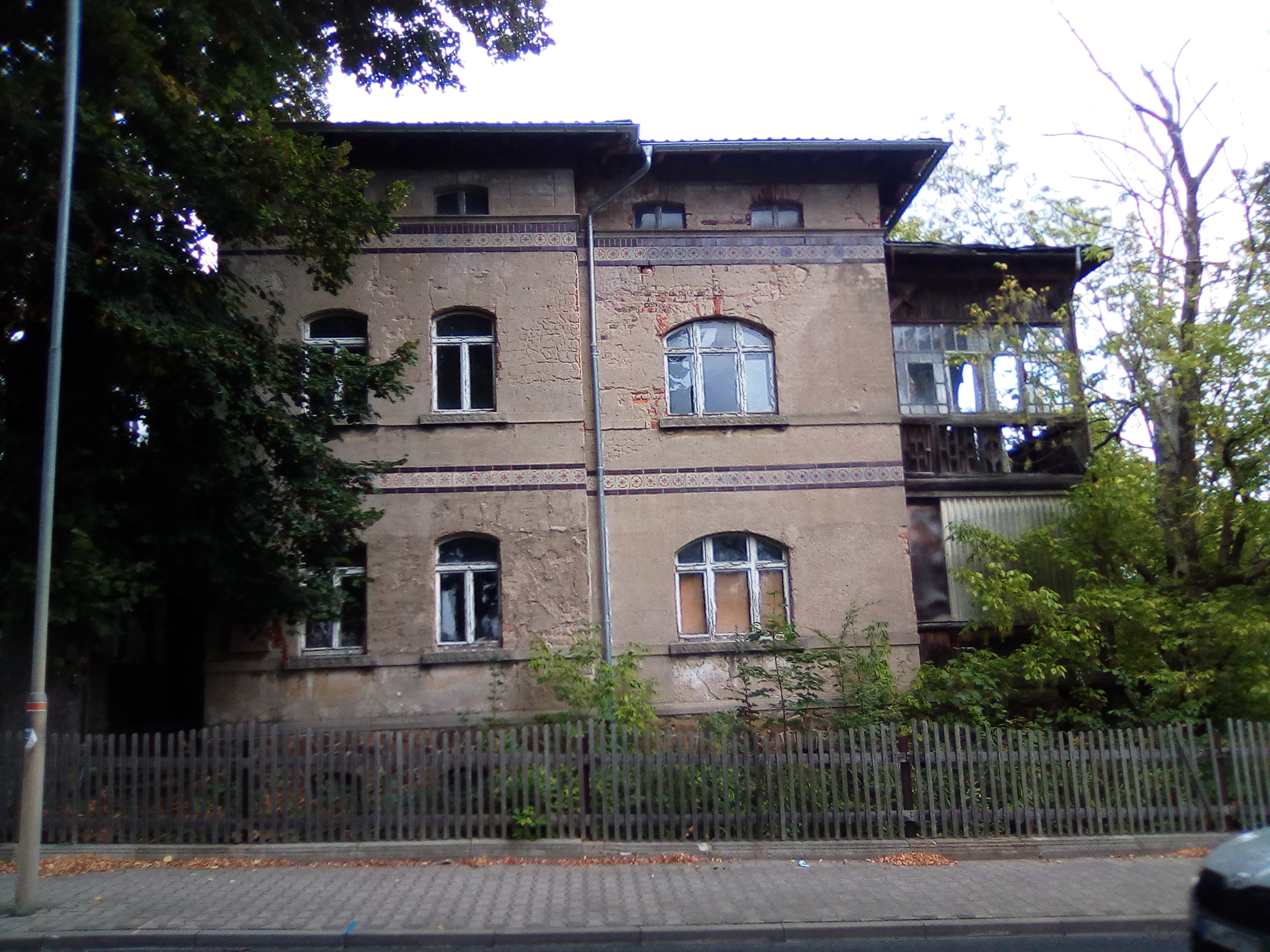 last living place of Wilhelm Wundt, Großbothen